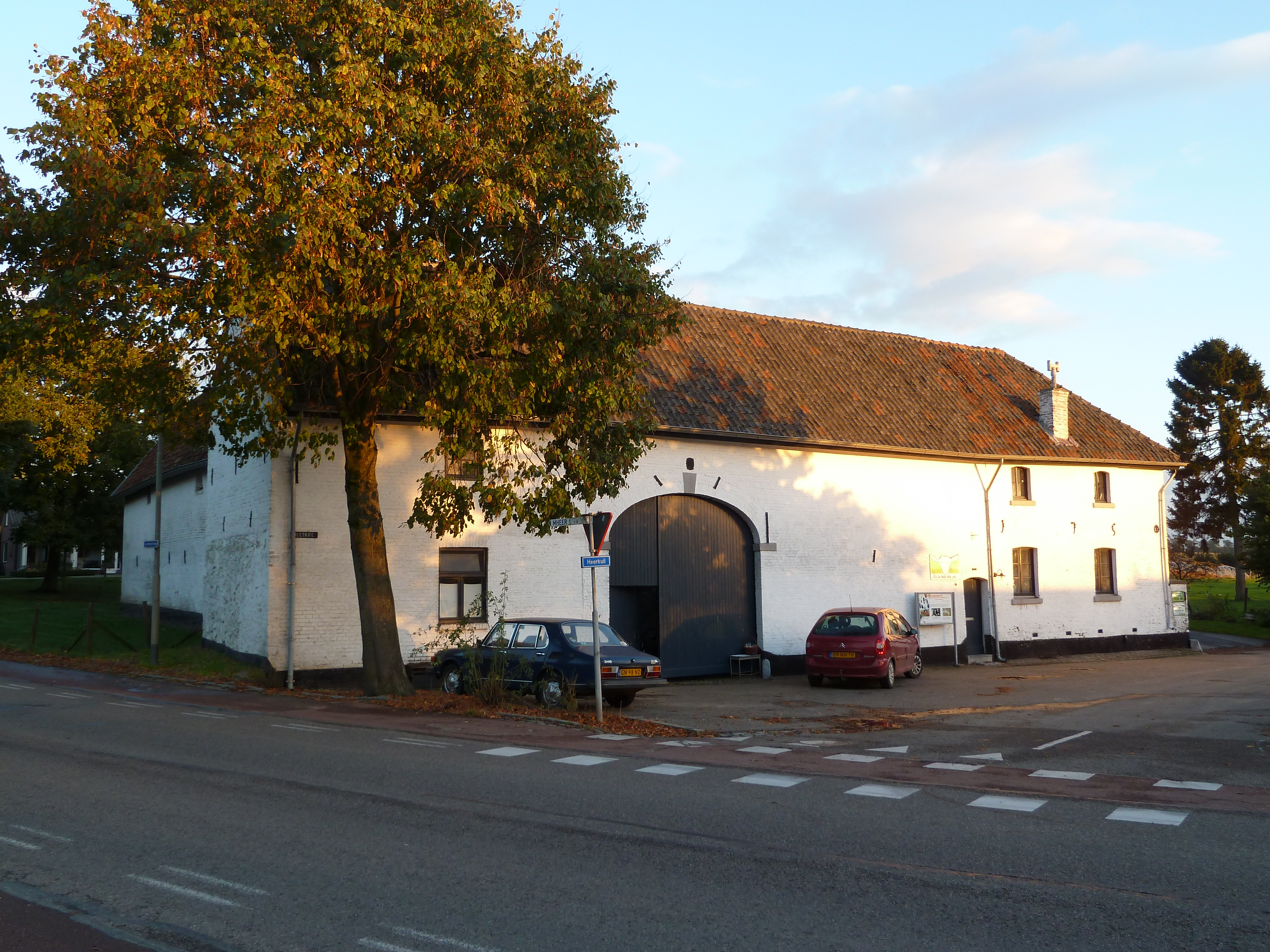 Heerkuil 1, Sint Geertruid, Limburg, the Netherlands